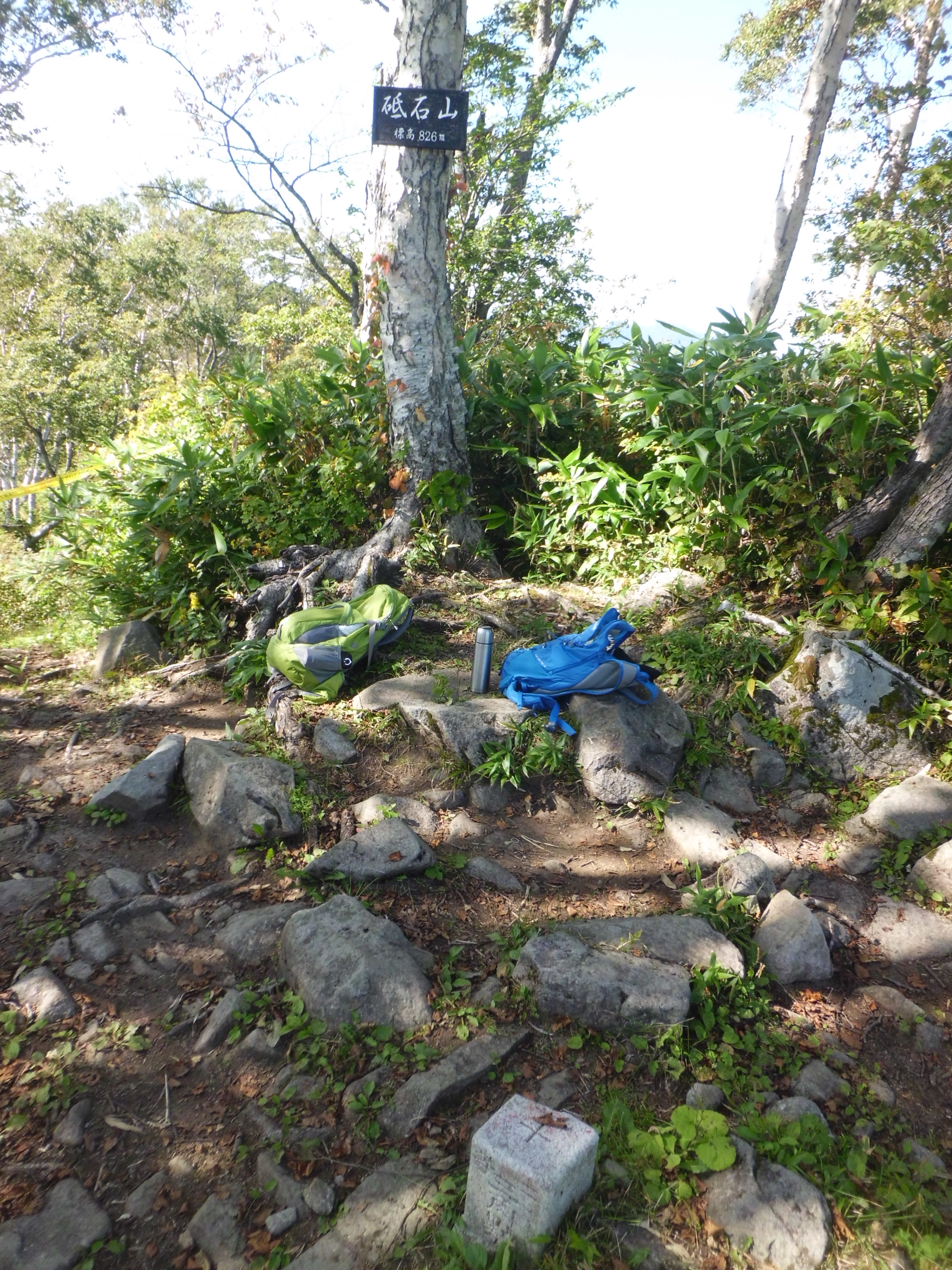 Summit of Mount Toishi (Sapporo)